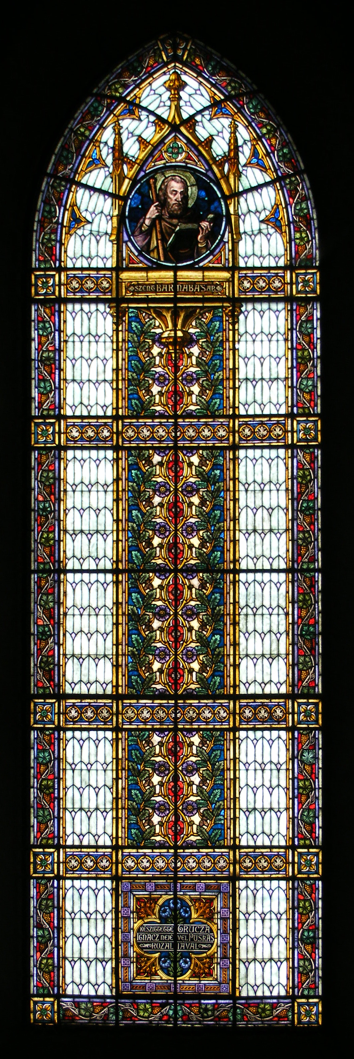 A painted window in the romano-catholic church, Ditró